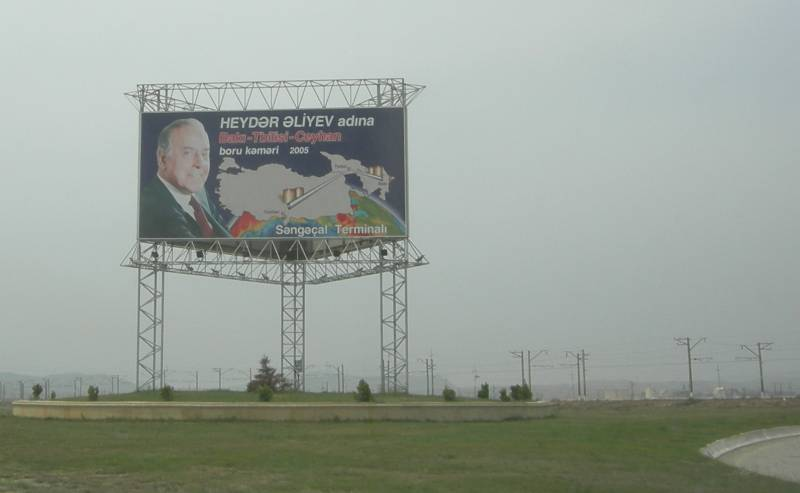 Sign near the starting poing of the Baku–Tbilisi–Ceyhan pipeline, Azerbaijan. Sangachal Terminal in the background.